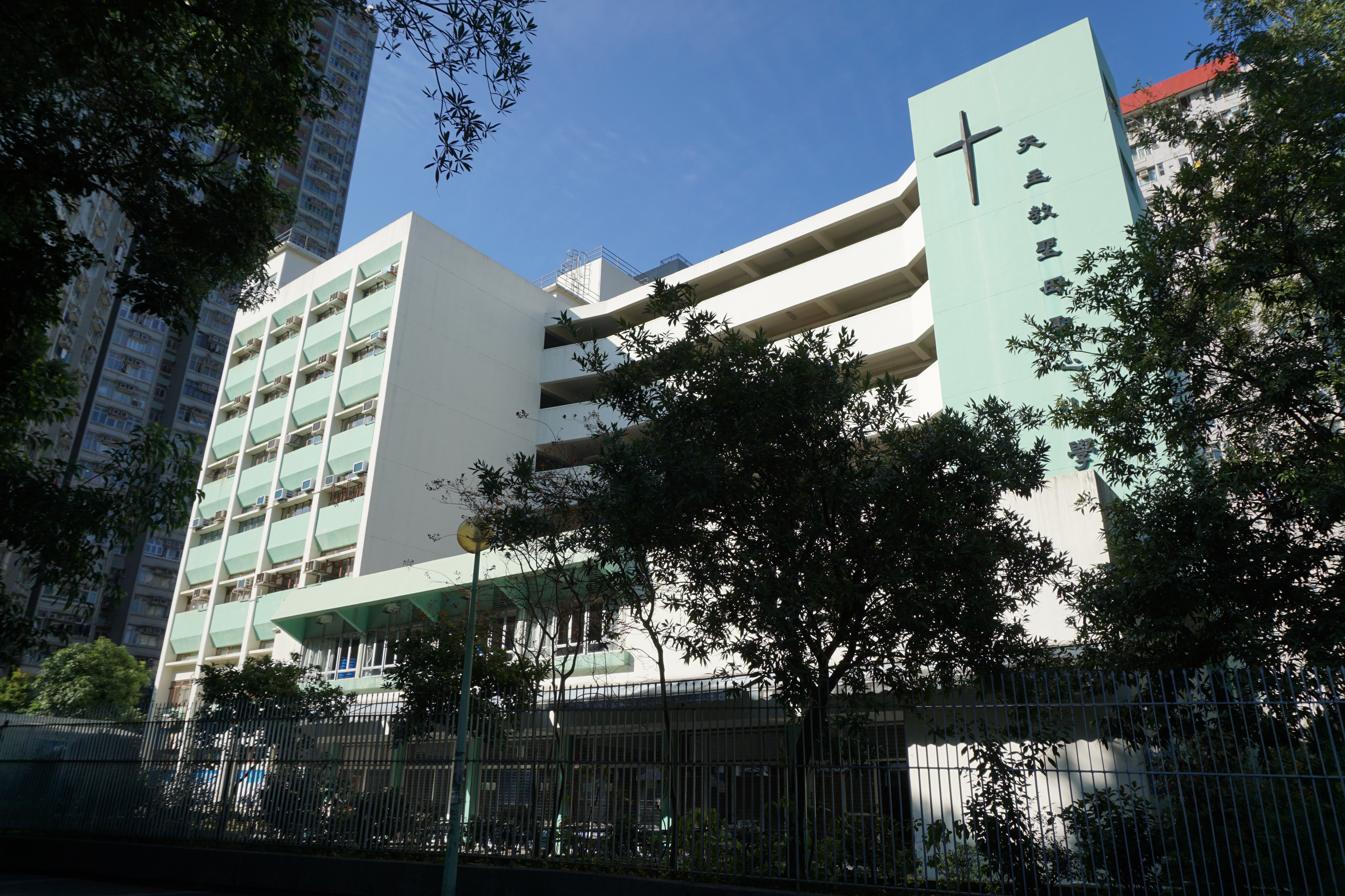 Sacred Heart of Mary Catholic Primary School in Tai Po, Hong Kong.